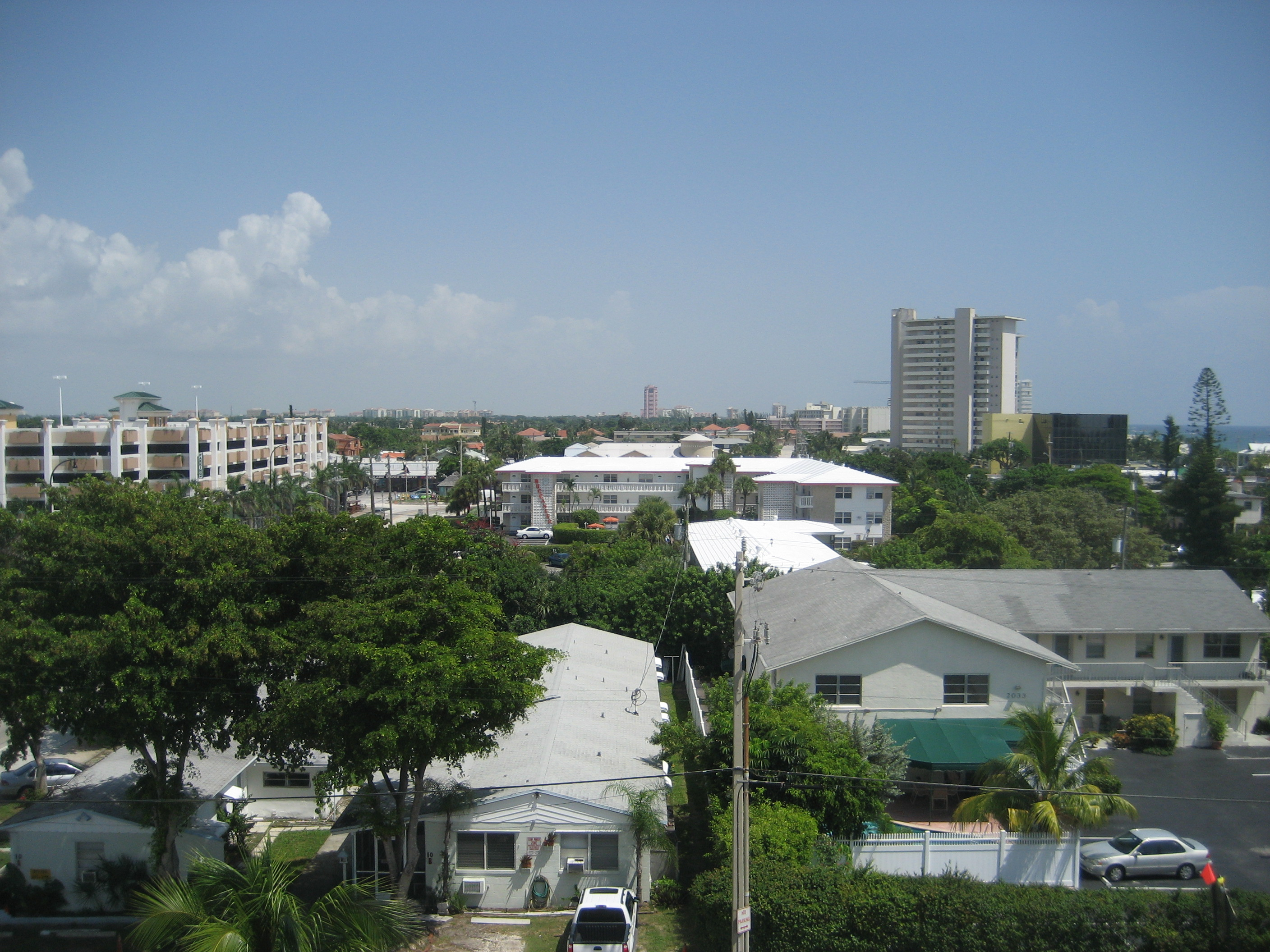 Deerfield Beach, Florida. View from high-rise near A1A & Hilsboro